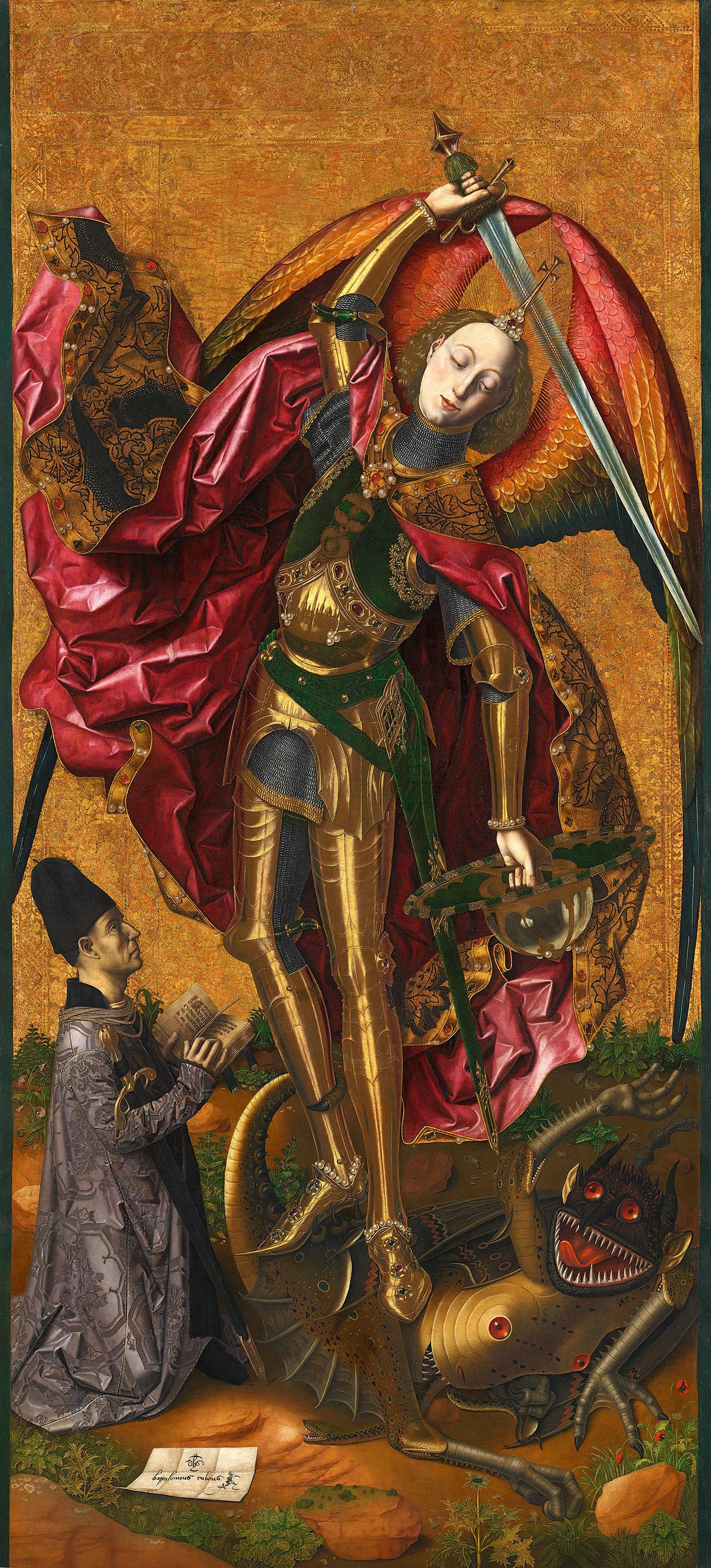 St. Michael